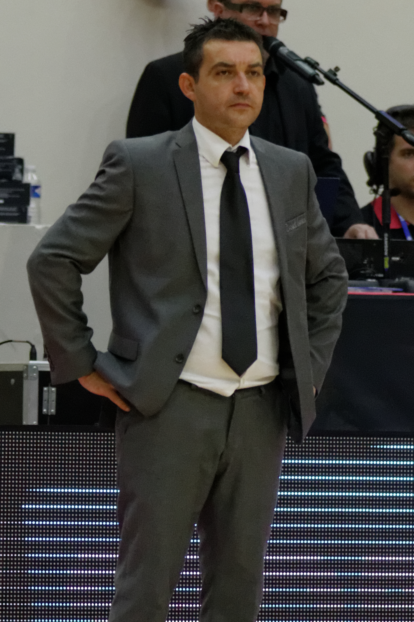 Open LFB, Villeneuve d'Ascq-Basket Landes, October 5th, 2013.